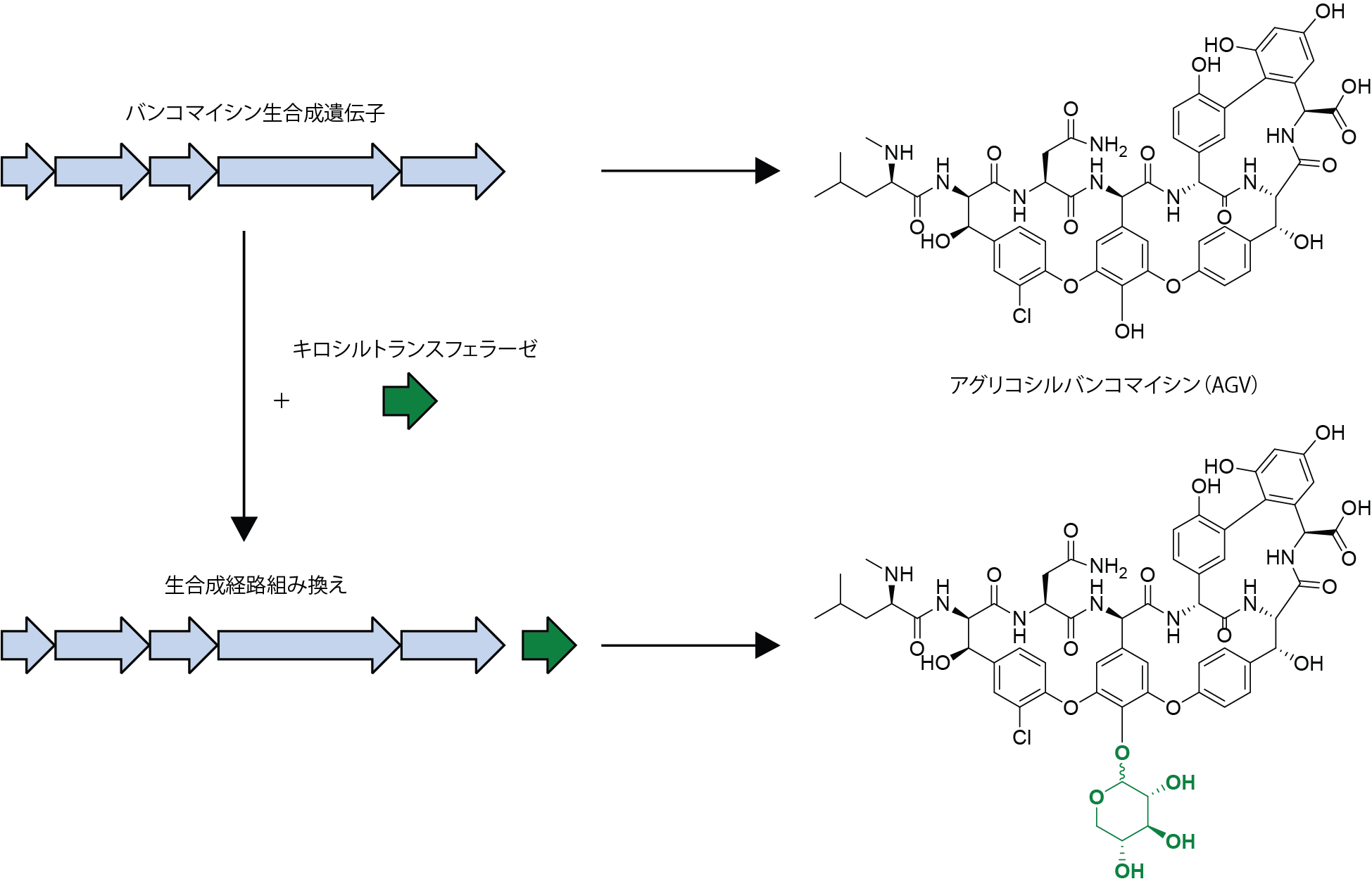 Example 3 of combinatorial biosynthesis (Japanese).